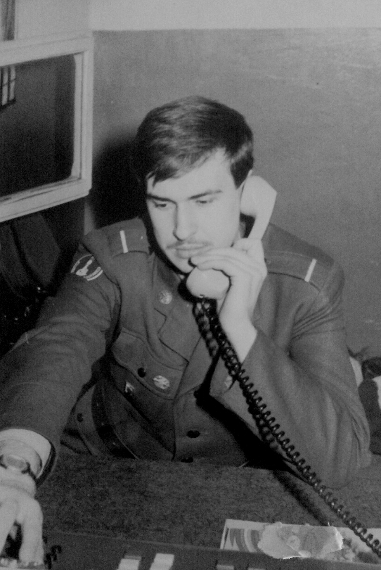 Kołobrzeg Border Control Post